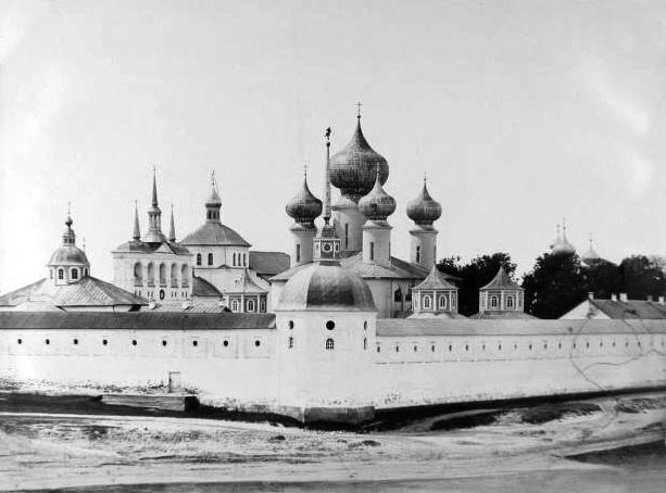 Tikhvin. Tikhvinsky Monastery